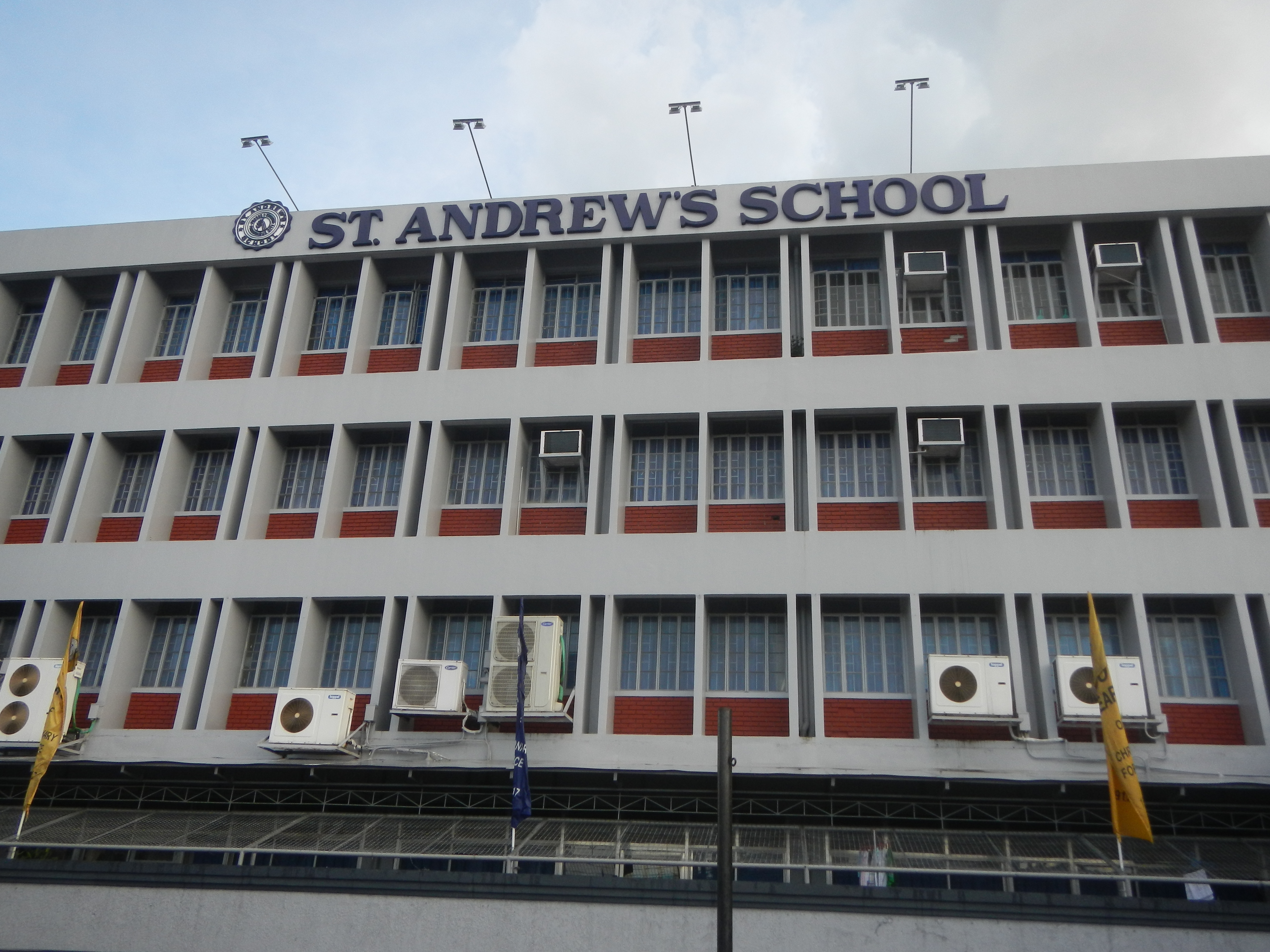 St. Andrew's School (Parañaque) Parañaque Cathedral Interior of the Diocesan Shrine of Nuestra Señora de Buen Suceso and The Cathedral-Parish of Saint Andrew (Quirino Avenue, La Huerta, Parañaque City) [1] [2] Statue of Our Lady of Good Success (Parañaque Cathedral) Legislative districts of Parañaque 1st District, Districts and barangays, Barangay La Huerta 14°29'50"N 120°59'43"E beside Tambo 14°30'59"N 120°59'20"E San Dionisio 14°29'2"N 120°59'33"E Baclaran, Parañaque City along Elpidio Quirino Avenue Don Galo-La Huerta Bridge, Parañaque City Sta. 9+766-Sta.9+841 Load limit 20 metric tons upon Parañaque River from and to Roxas Boulevard, Radial Road 2 from Baclaran LRT station (Note: Judge Florentino Floro, the owner, to repeat, Donor Florentino Floro of all these photos hereby donate gratuitously, freely and unconditionally Judge Floro all these photos to and for Wikimedia Commons, exclusively, for public use of the public domain, and again without any condition whatsoever).